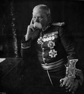 Portrait of General Sir George Greaves